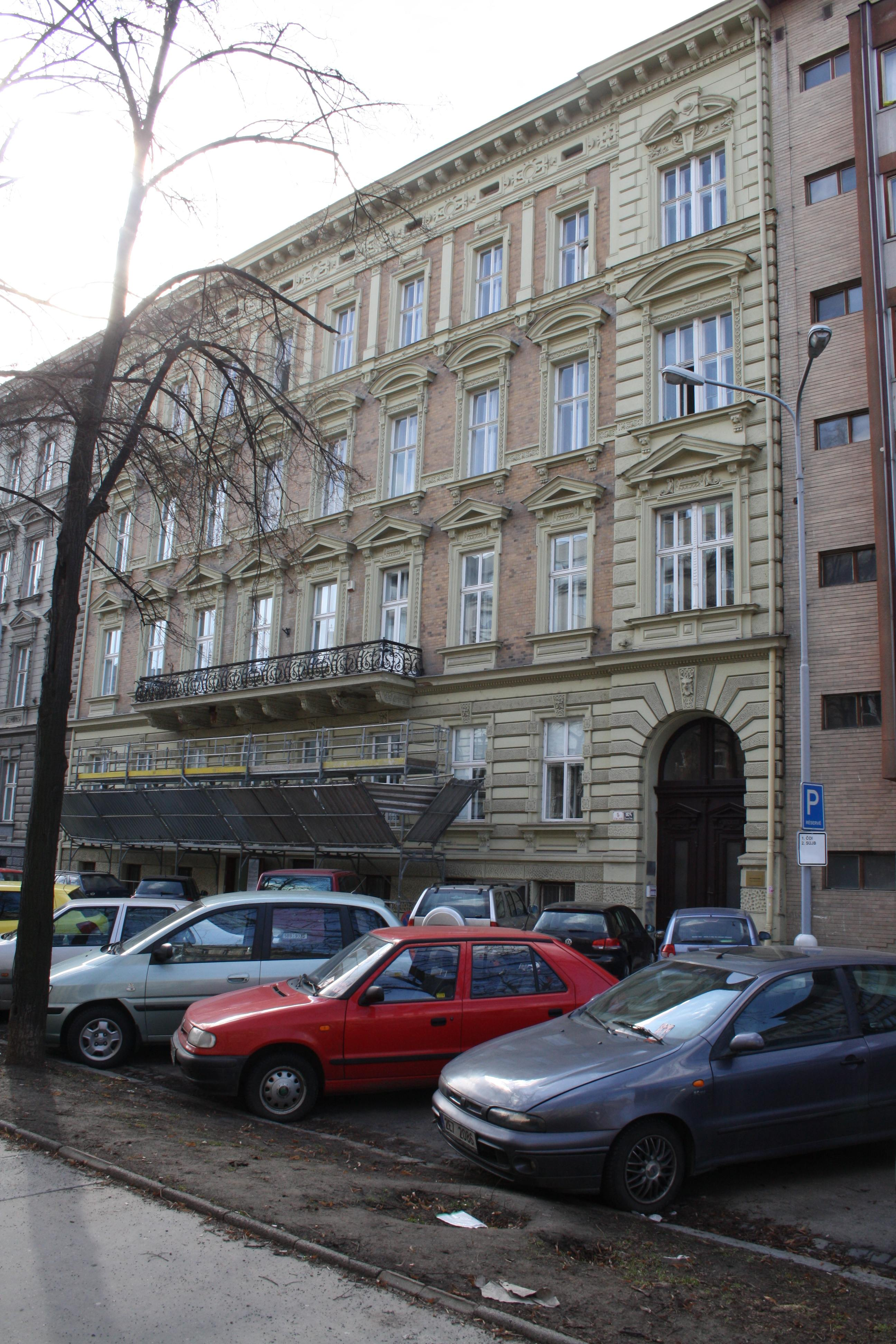 Building of ČOI and ÚJPB in Brno.